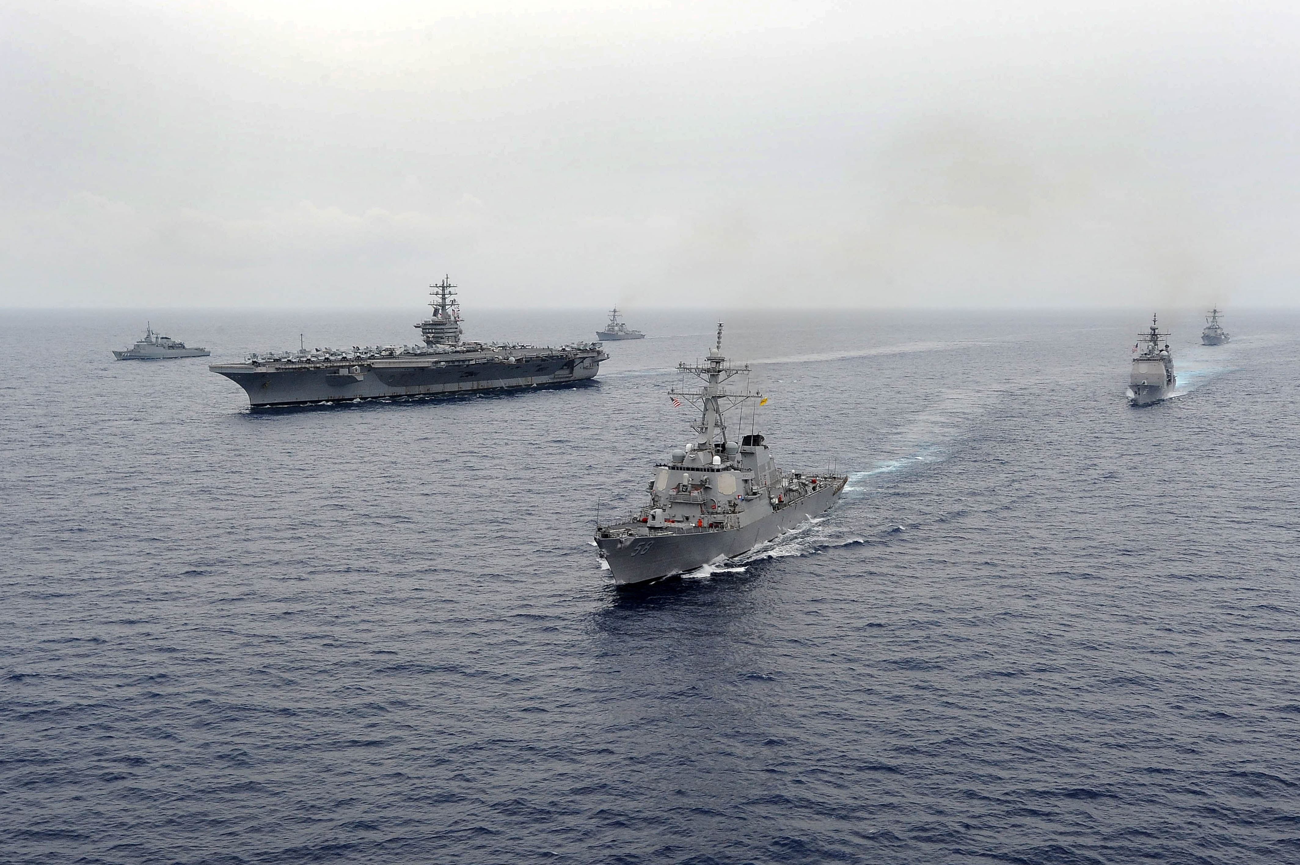 ATLANTIC OCEAN (May 16, 2012) Ships from Carrier Strike Group (CSG) 8, led by the aircraft carrier USS Dwight D. Eisenhower (CVN 69), are underway in formation at the end of a composite training unit exercise (COMPTUEX). (U.S. Navy photo by Mass Communication Specialist 2nd Class Julia A. Casper/Released) Join the conversation navylive.dodlive.mil